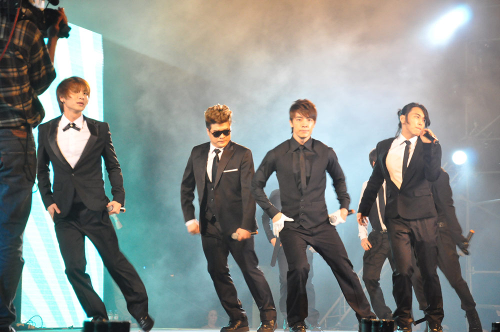 Super Junior performing at the MTV EXIT Hanoi Concert 2010